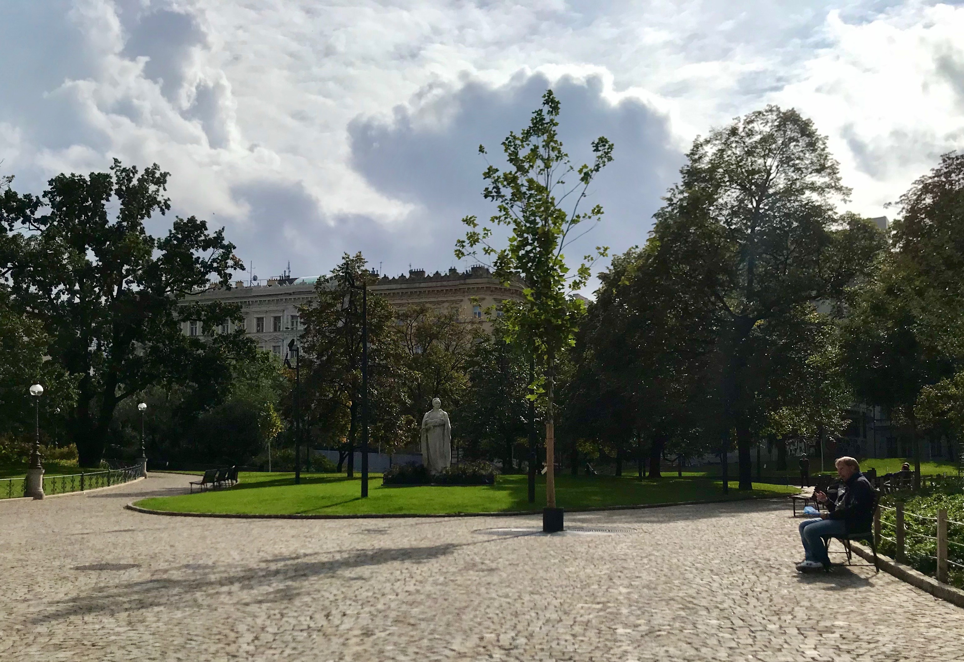 Čelakovského sady in 2019, statue of Otilie Sklenářová-Malá by Ladislav Šaloun